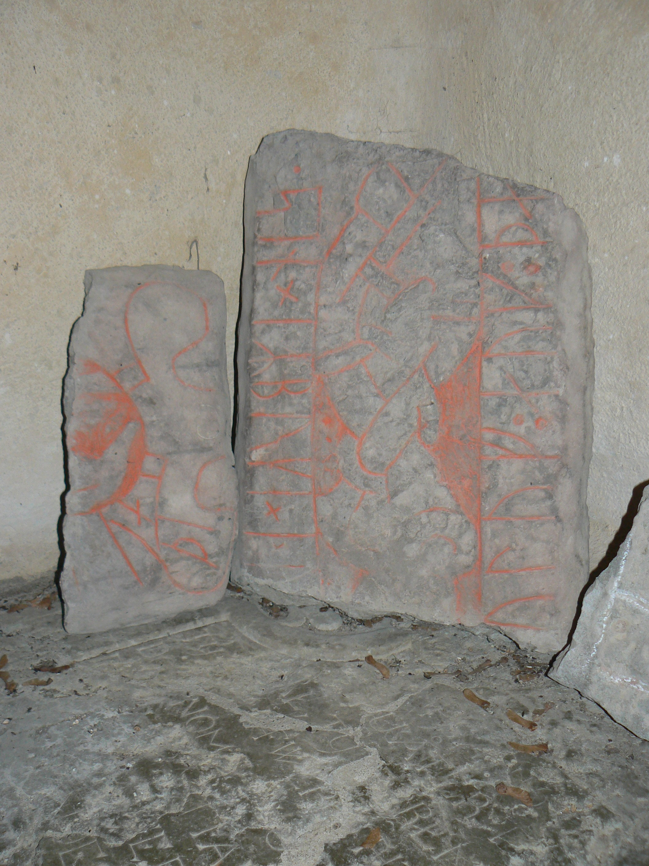 Ög 198, runstone in Normlösa church, east of Skänninge, Sweden.